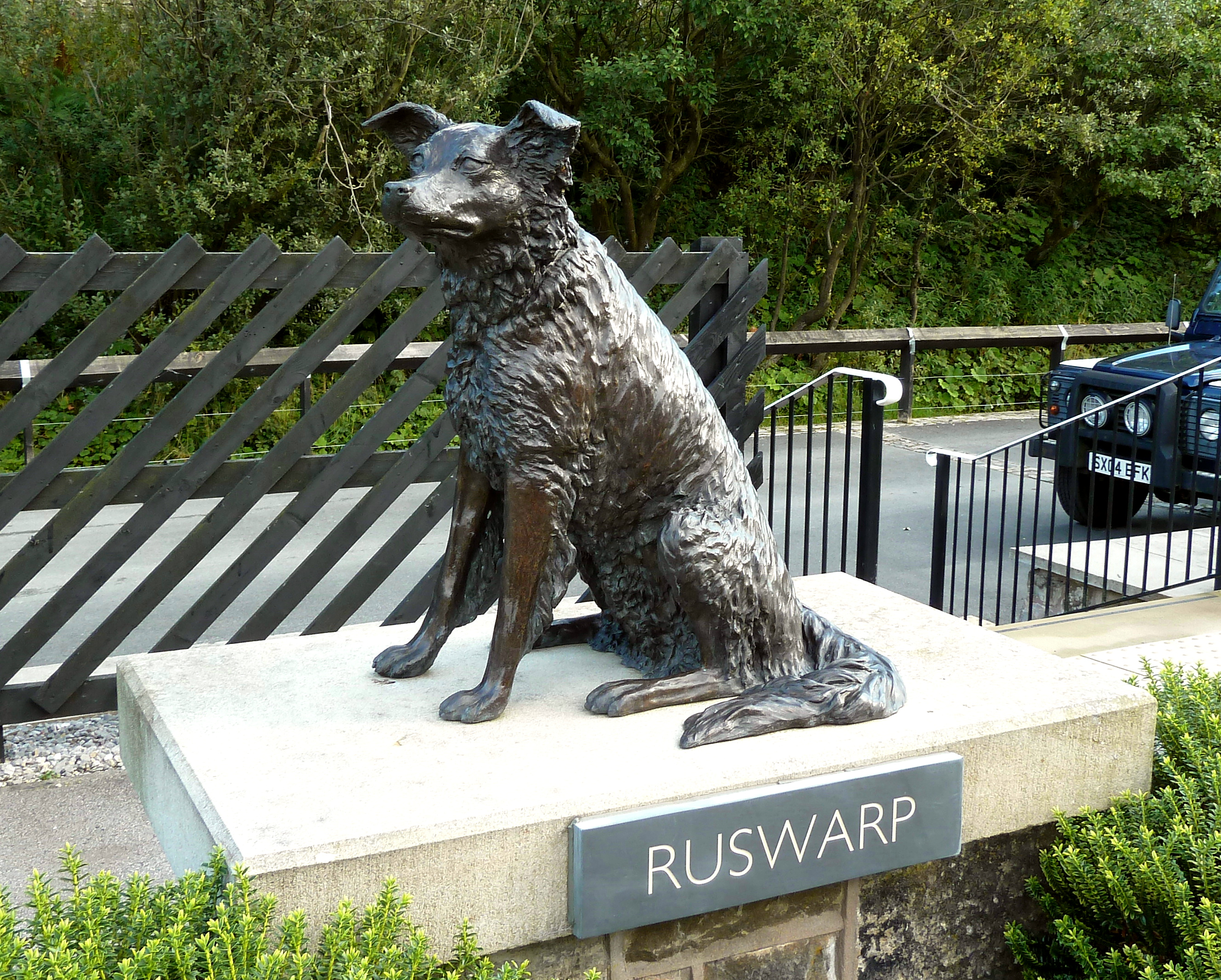 Bronze statue of dog at Garsdale Railway Station, England. An explanation is given at File:Ruswarp - .uk - 1259798.jpg. It says: "Ruswarp Ruswarp (pronounced "russup") belonged to Graham Nuttall the first Secretary of the Friends of the Settle-Carlisle Line (FOSCL) which was formed to campaign against the proposed closure of the line. Ruswarp's paw print was put on his own objection as a fare-paying passenger. The line was finally saved in 1989. In January 1990 Graham and Ruswarp went missing in the Welsh mountains. On 7th April 1990 a lone walker found Graham's body, by a mountain stream. Nearby was Ruswarp, so weak that the 14-year-old dog had to be carried off the mountain. He had stayed with his master's body for eleven winter weeks. "The RSPCA awarded Ruswarp their Animal Medallion and collar for 'vigilance' and their Animal Plaque for 'intelligence and courage'. He survived long enough to attend Graham's funeral."